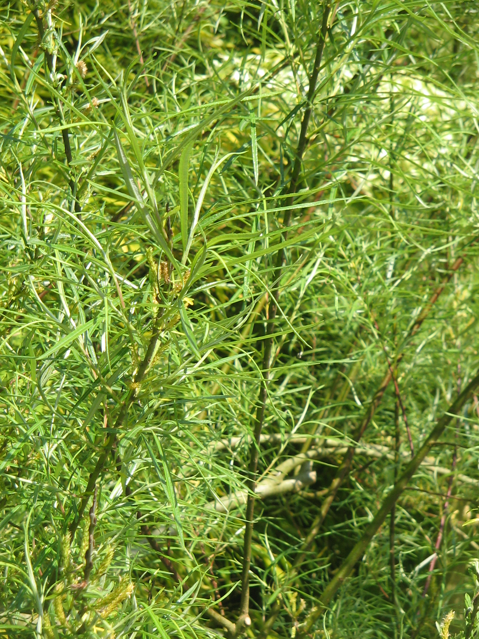 Salix rosmarinifolia